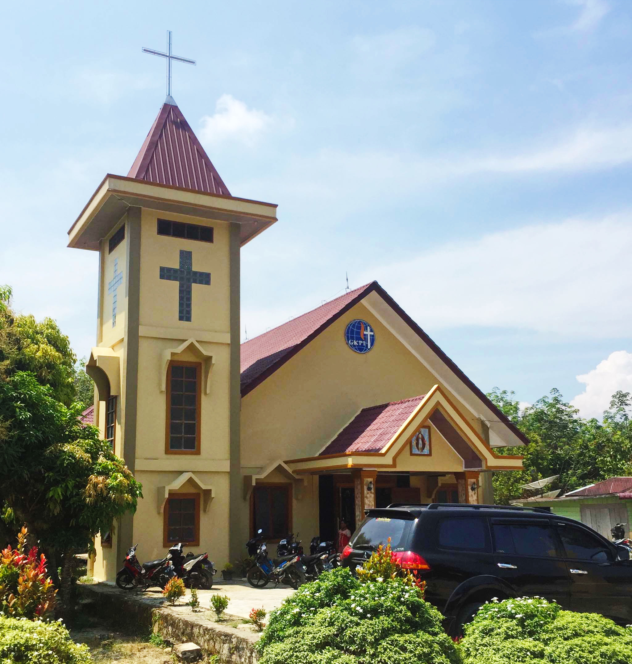 GKPI Pengantaran, Res. Tanah Jawa II Church in Tangga Batu, Hatonduhan, Simalungun